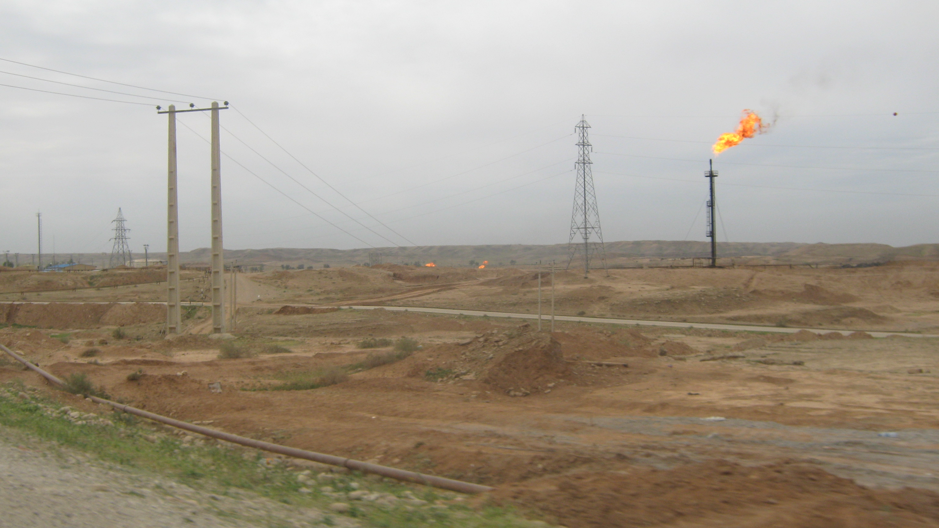 Naft Shahr, Iran